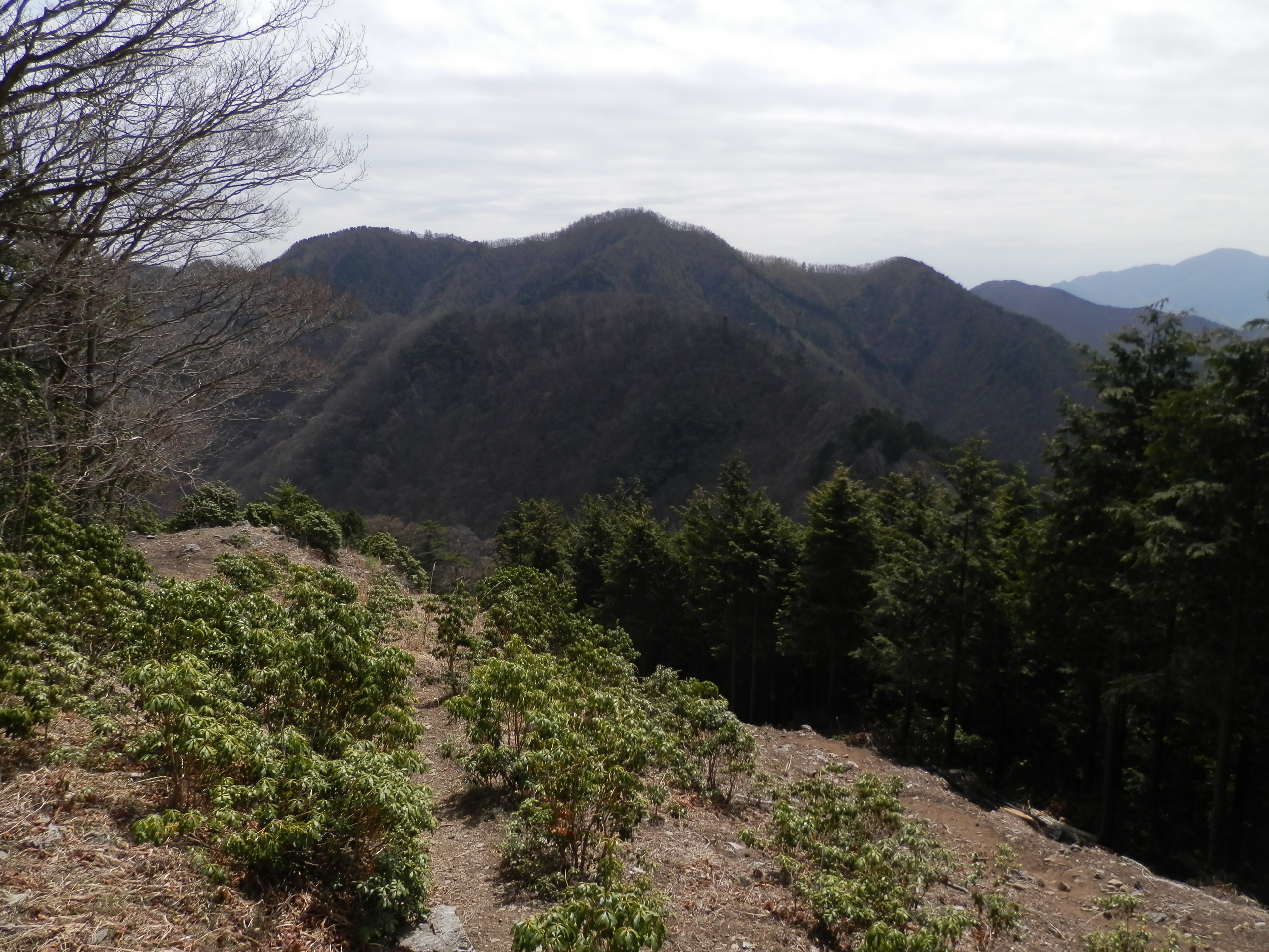 Mt. Kawanori from Mt. Hinatanosawamine.